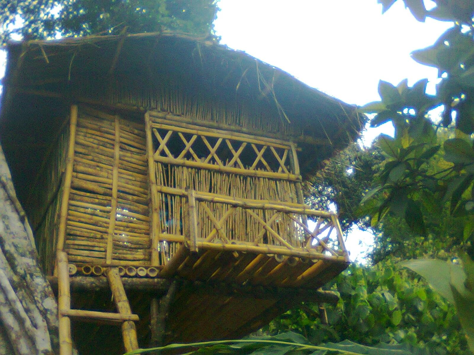 Tree House...Namari,Udumbanchola